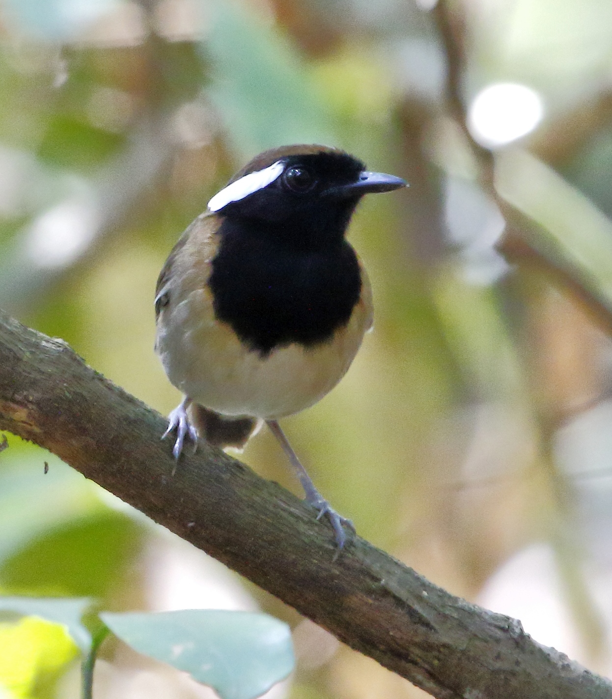 Chestnut-belted gnateater at Carajás National Forest - Pará - Brasil